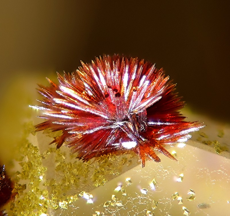 Carminite Locality: Alto das Quelhas do Gestoso Mines, Gestoso, Manhouce, São Pedro do Sul, Viseu District, Portugal Picture width 1.5 mm. Collection and photograph Christian Rewitzer This Photo was Photo of the Day - 26th Apr 2009